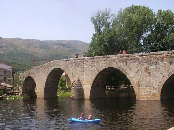 Stone brigde over Alberche river, at Navaluenga, Ávila province, Spain.